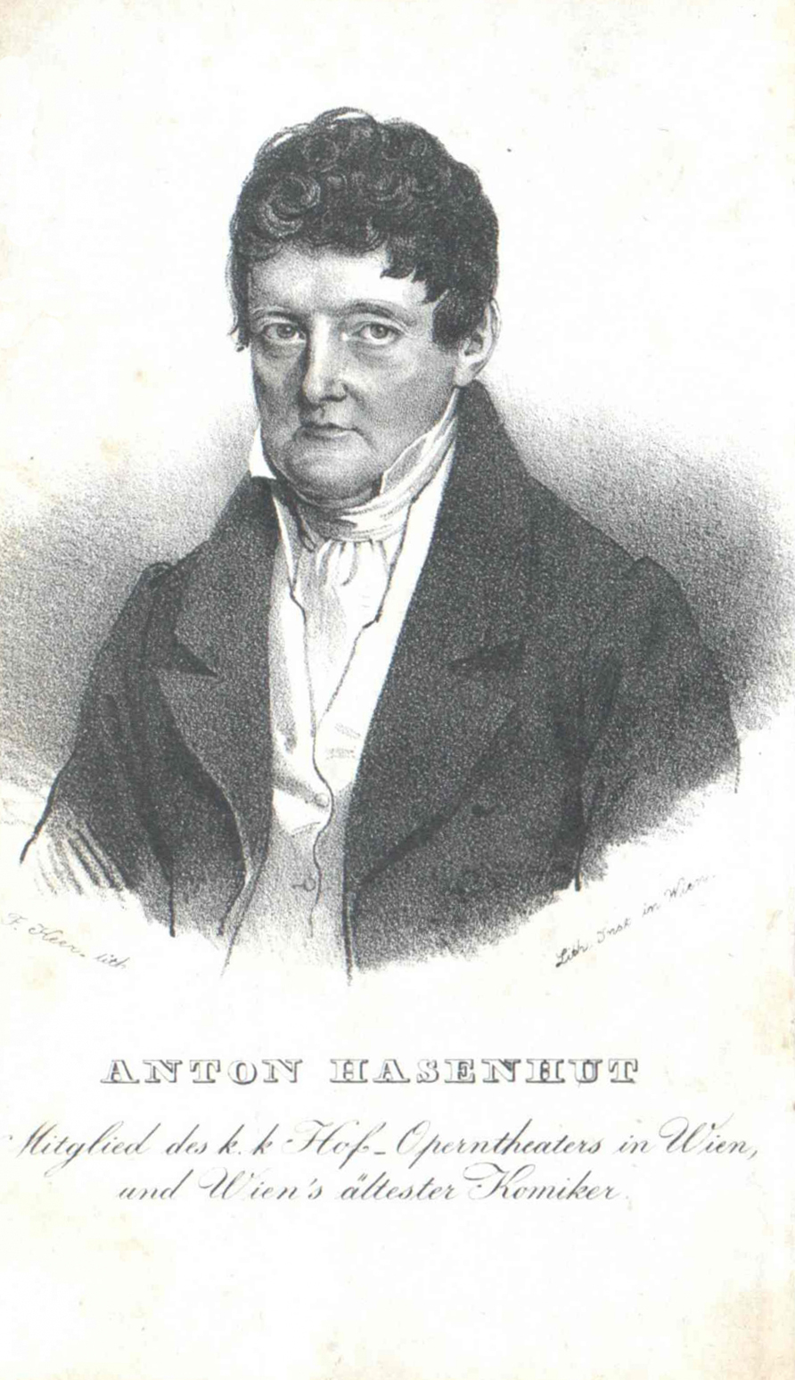 The actor Anton Hasenhut (1766–1841)